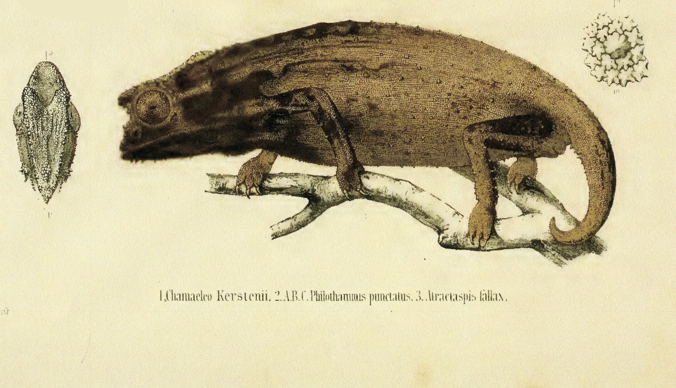 Chamaeleo Kerstenii Peters 1868, currently Rieppeleon kerstenii